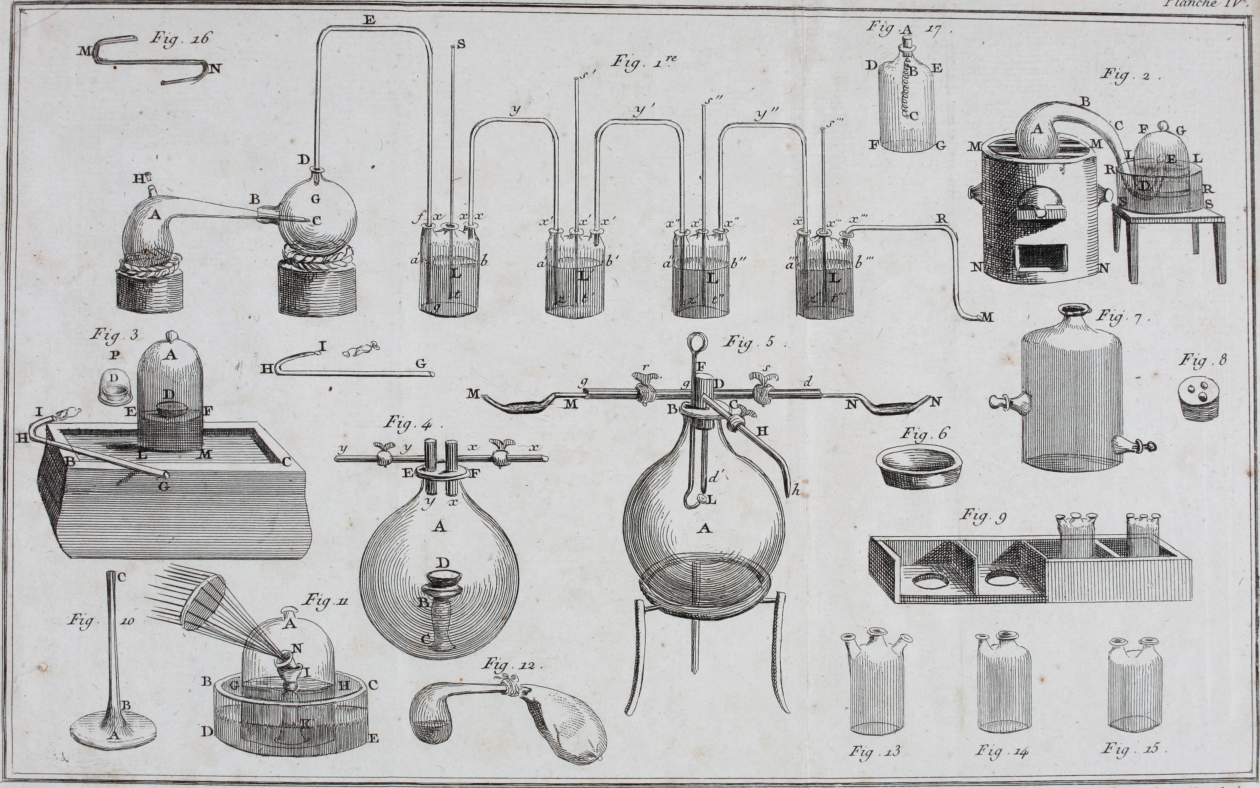 Title: Traité élémentaire de chimie : présenté dans un ordre nouveau et d'après les découvertes modernes ; avec figures Year: 1789 (1780s) Authors: Lavoisier, Antoine Laurent, 1743-1794 Subjects: Chemistry Chemistry Publisher: A Paris, Chez Cuchet, libraire, rue et Hôtel Serpente Text Appearing Before Image: Faillie Zavoii-ier Sculpsit P7a?icAe IV. Text Appearing After Image: Jîmàe Zaooùner Jeulp /./a?nAe V Fiy . 2